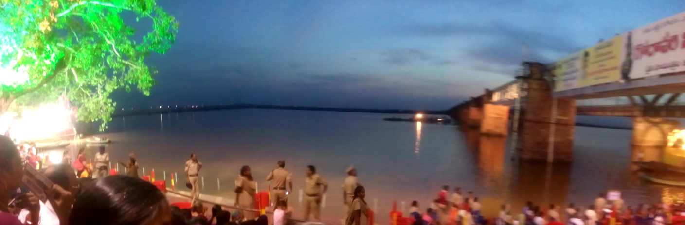 Rajamandry Godavari Pushkaralu 2015 (Godavari Kumbhamela)